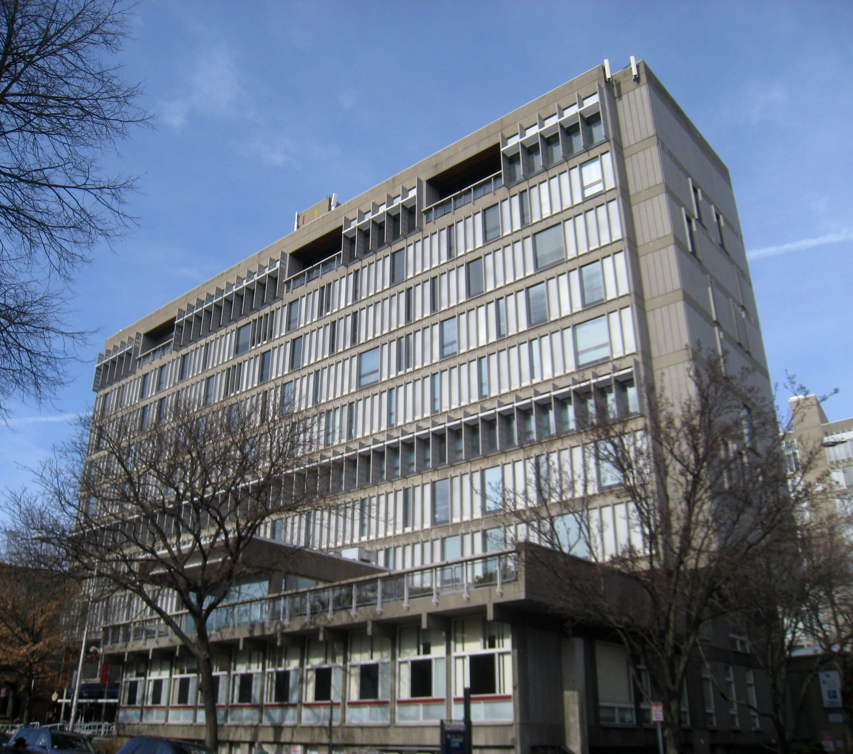 Holyoke Center, Harvard Square, Cambridge, Massachusetts, USA.